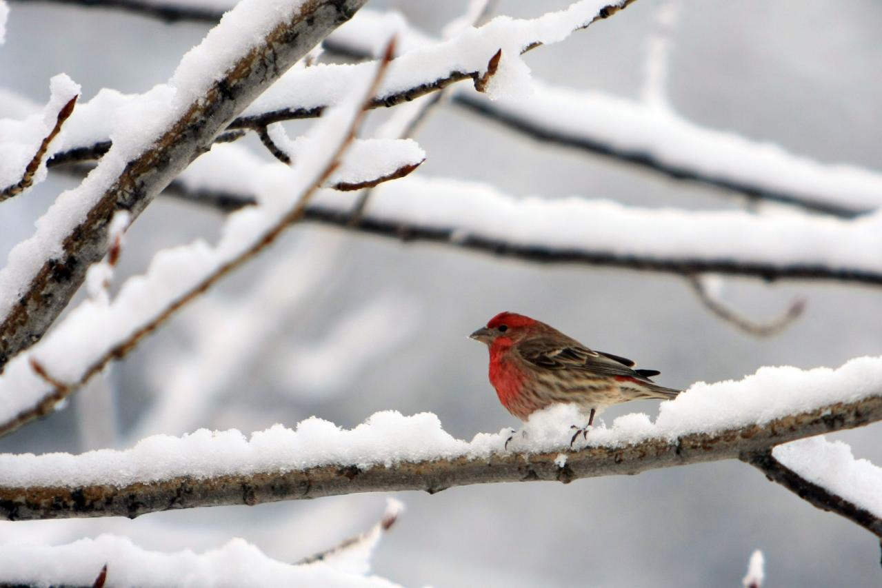 Carpodacus mexicanus (House Finch) location: Sierra Nevada